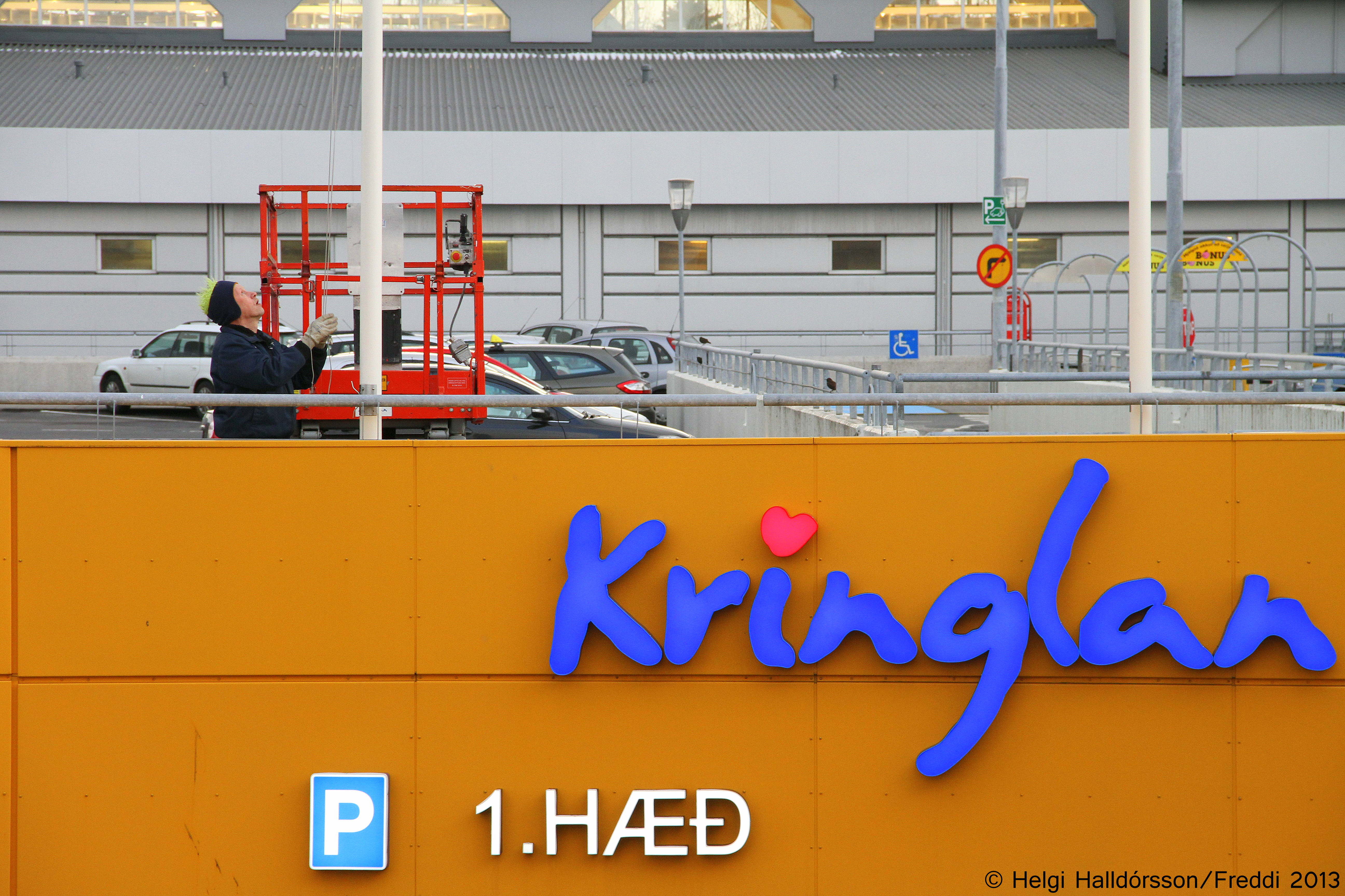 When Kringlan first opened its doors to the public in 1987, it represented an enormous achievement, as it was the first big shopping centre in Iceland. With 21,000 sq.m of gross leasable floor space and over 80 shops on two levels, Kringlan was an instant hit with Icelanders. The Shopping centre has become so popular that the word Kringlan is now synonymous with shopping centre in the Icelandic language.